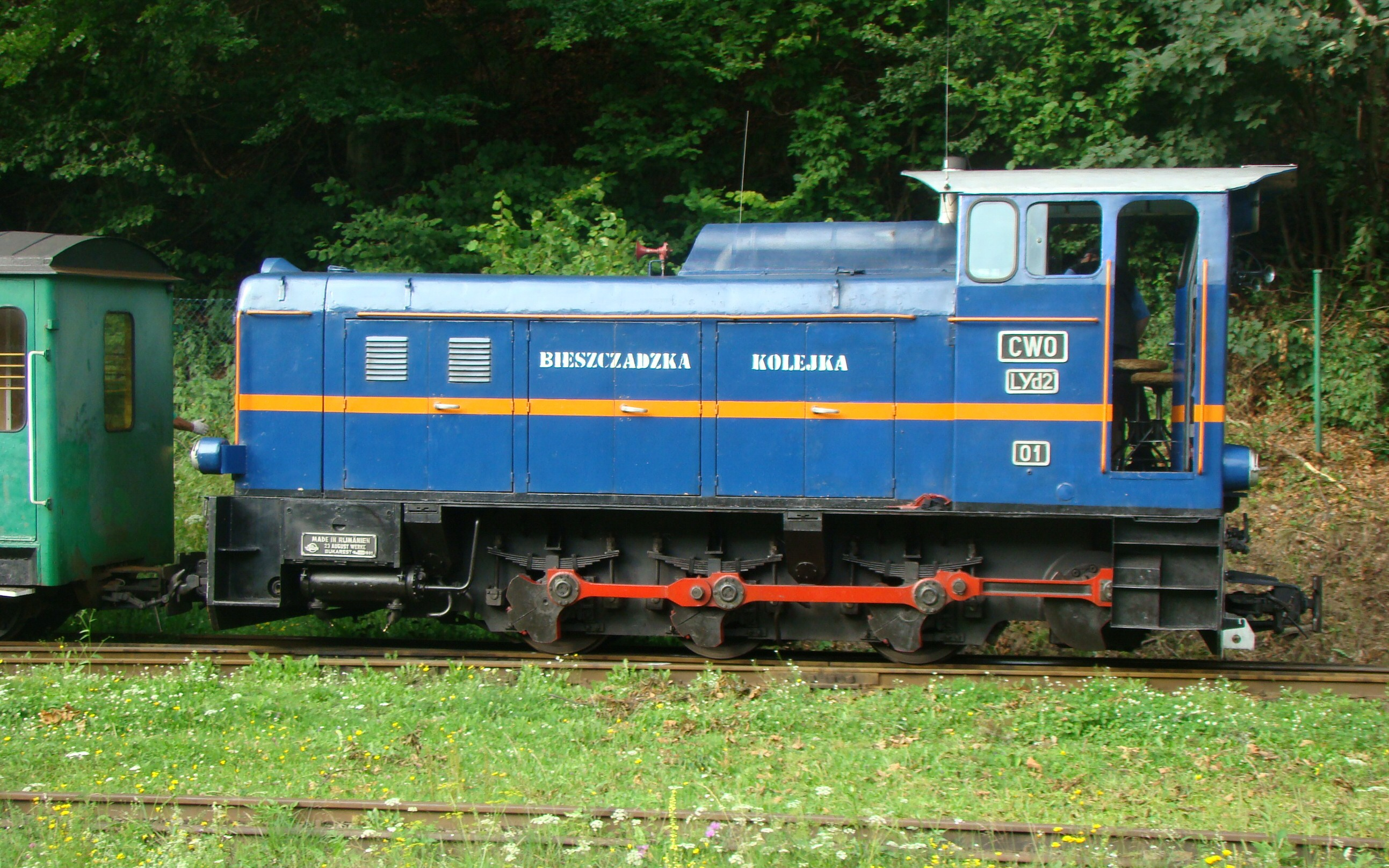 Lyd2-01 locomotive of Bieszczady Forest Railway at Majdan station